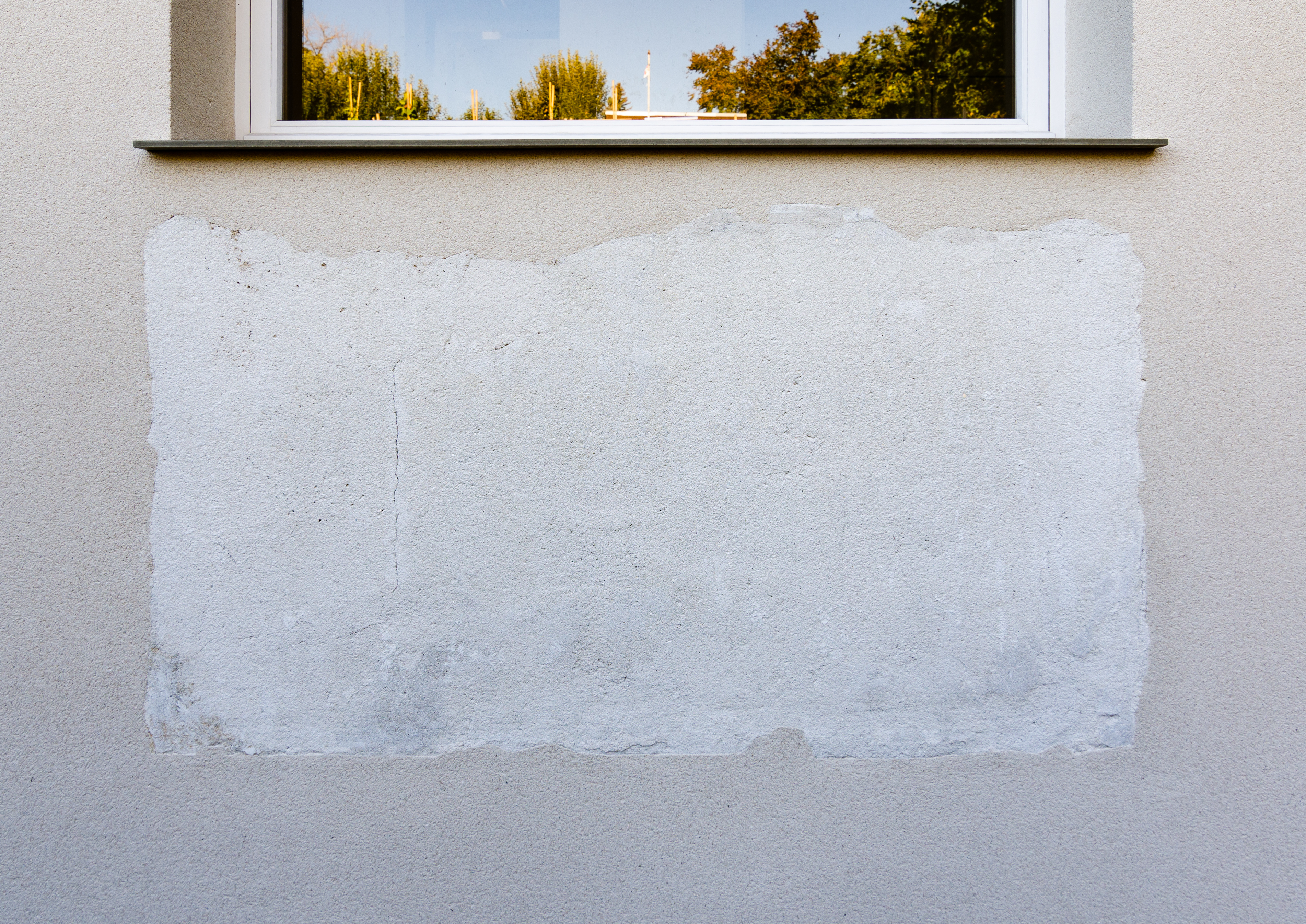 Weimar (Thuringia, Germany) – Haus am Horn – eastern facade – original plaster surrounded by restored plaster